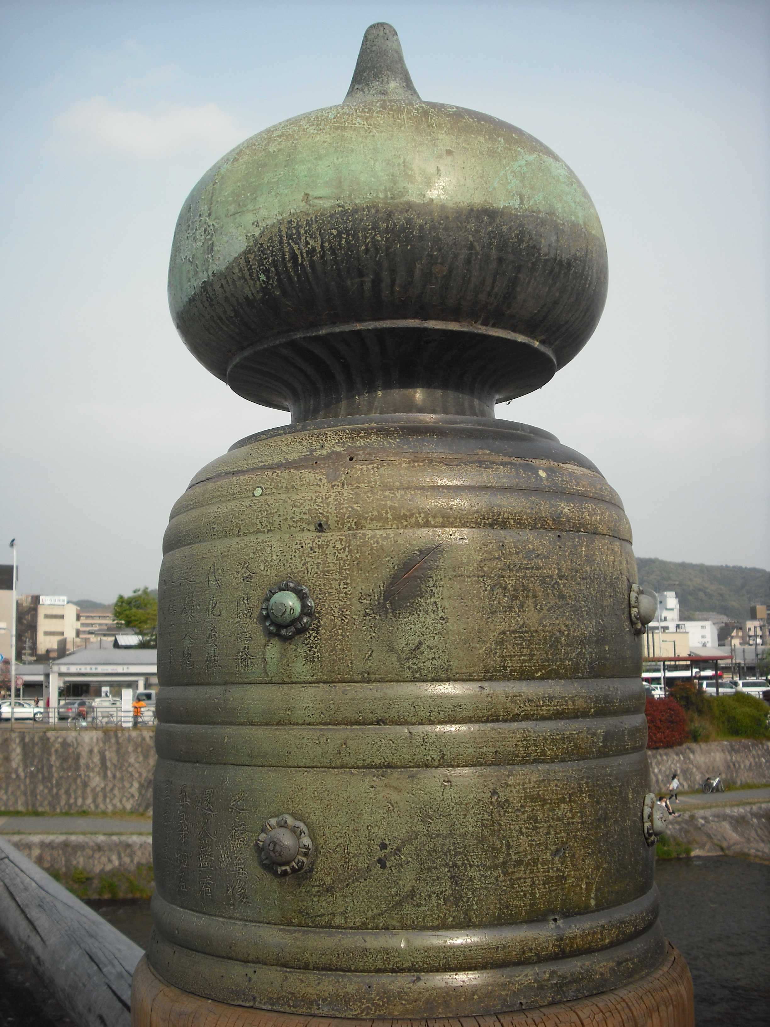 池田屋事件による刀傷とされる三条大橋疑宝珠